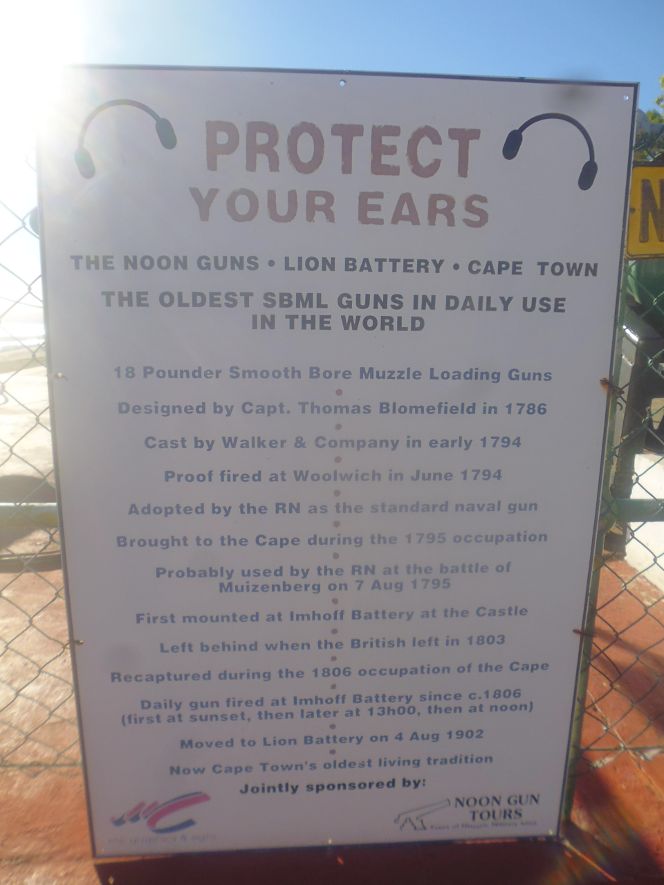 A billboard of Noon Gun tours posted at Lion Battery on Signal Hill in Cape Town, South Africa, summarizing the history of the Noon Guns